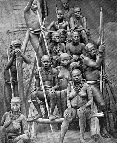 Andamaese Negrito Andaman